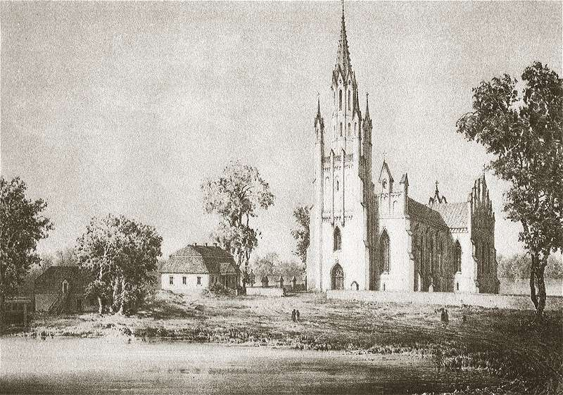 Church of Šateikiai, Lithuania